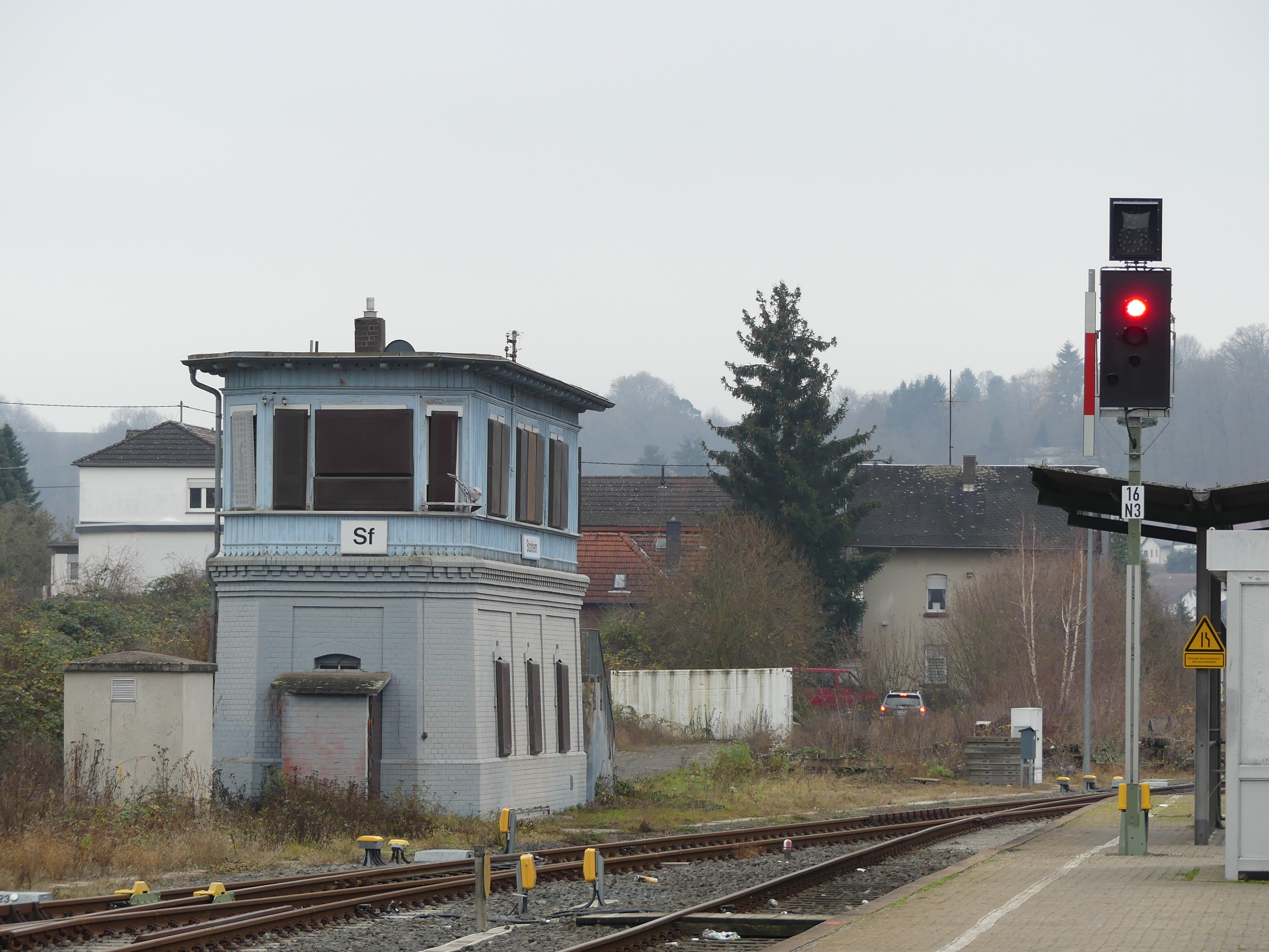 Glauburg-Stockheim railway station. Platform track 3, view in south direction. The decommissioned signal box and a new signal, controlled by an ESTW